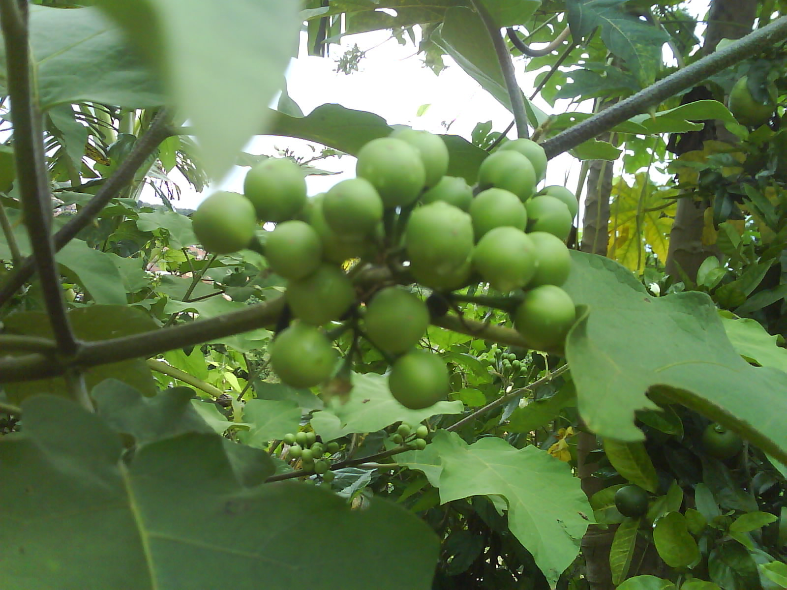 Fruit of Solanum paniculatum